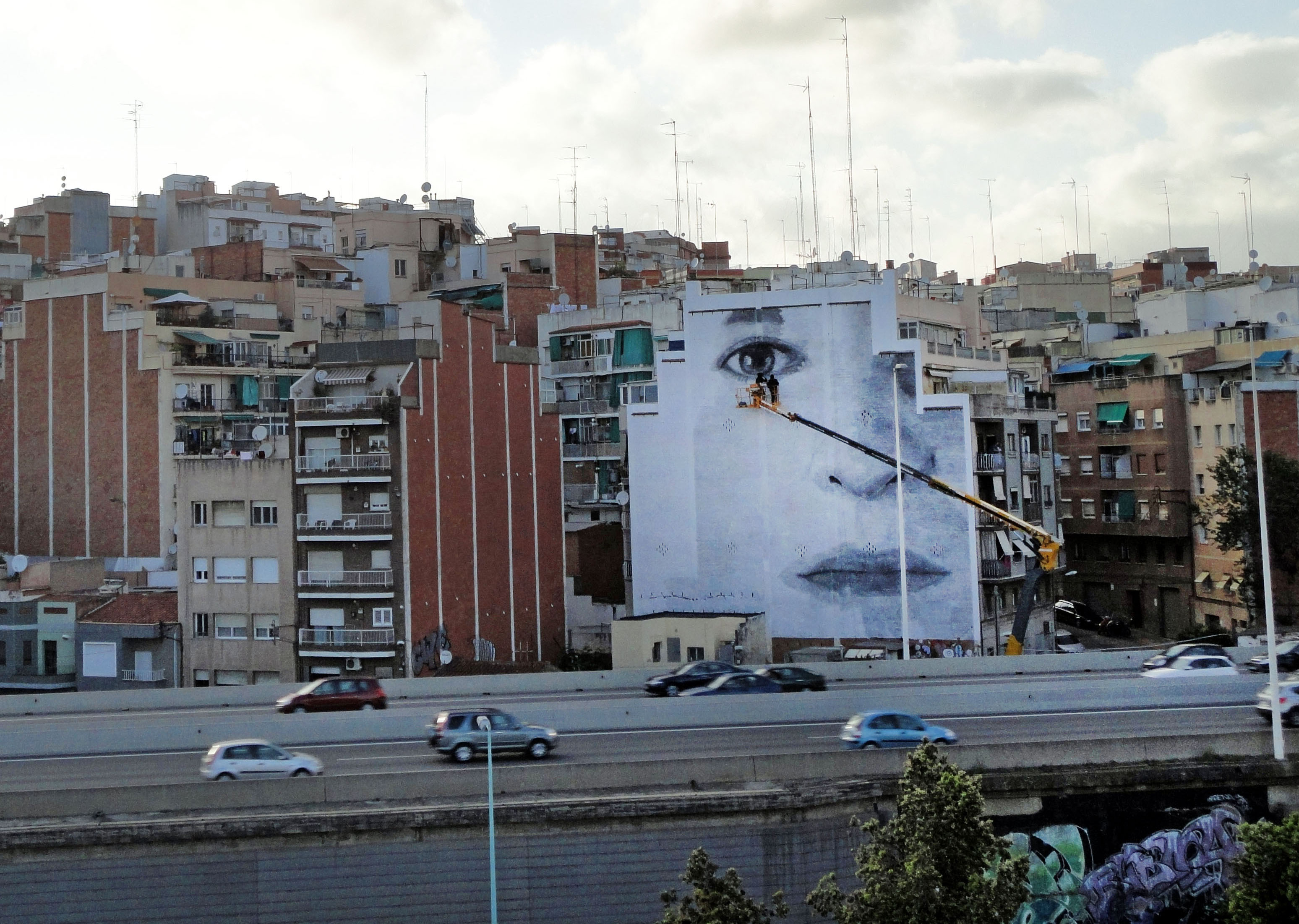 Mural based on a composite image created by scanning one person from each neighbourhood in the city of Badalona, Spain.